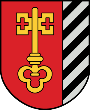 Coat of arms of Zilupe Municipality, Latvia.